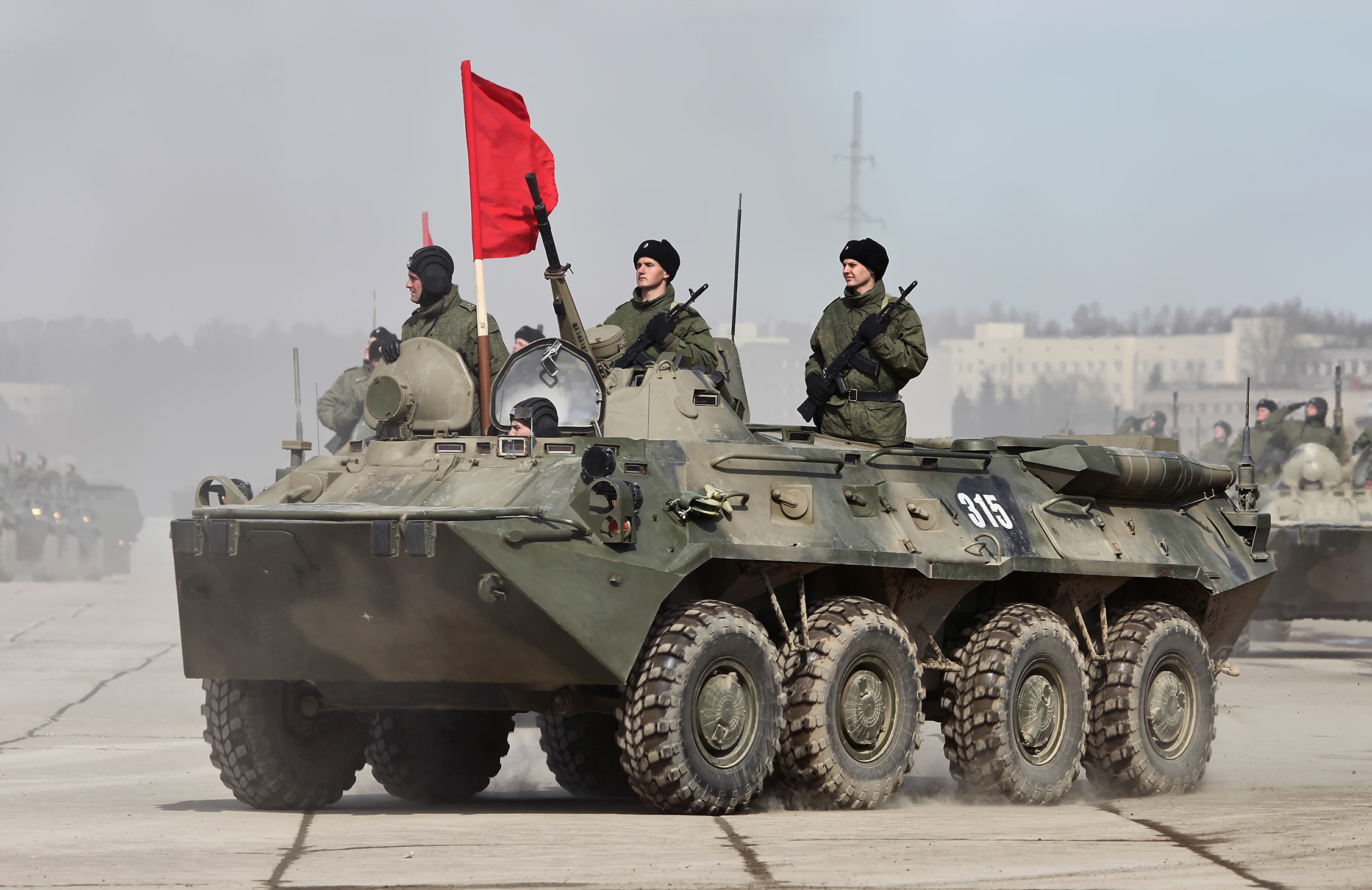 BTR-80 APC